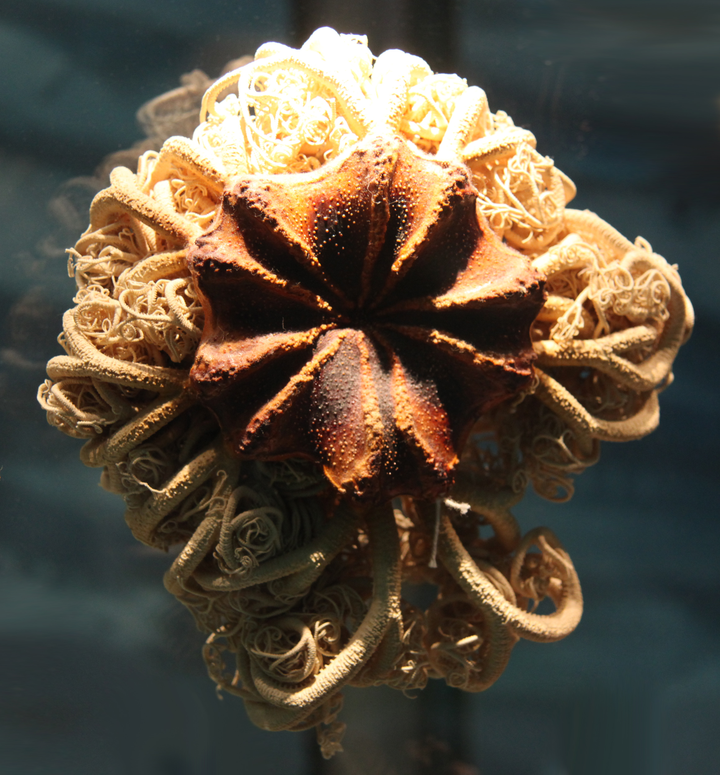 Gorgonocephalus caryi (? = Gorgonocephalus eucnemis), a basket star, on display in the Smithsonian Museum of Natural History in Washington, D.C. This is the mouth of the animal. The top (from which the arms emanate) is facing away from the viewer. Gorgonocephalus caryi are animals, not plants. They seek out the highest part of the reef, and anchor themselves there. They wave their arms back and forth, seeking small plankton and krill to feed on. Their arms have hooks and spines on them, which trap the food. Small appendages ("feet") on the arms then move the food toward the mouth. Gorgonocephalus caryi prefer cold waters, or very deep and cold water. They were first identified in 1842, but not named and described until 1860.